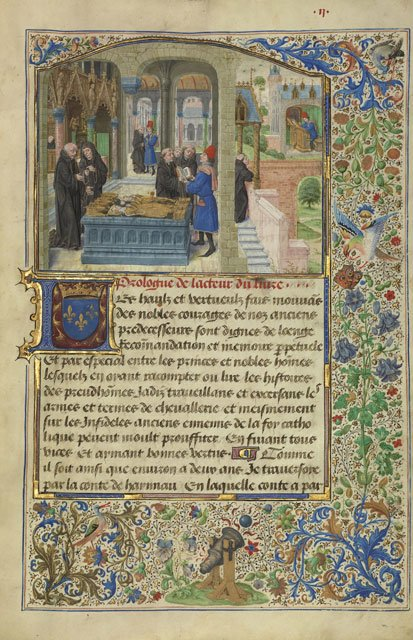 The Author Hears the Story of Gillion de Trazegnies by Lieven van Lathem and David Aubert, after 1464. Tempera colors, gold, and ink on parchment. 37 x 25.5 cm. The J. Paul Getty Museum, Los Angeles